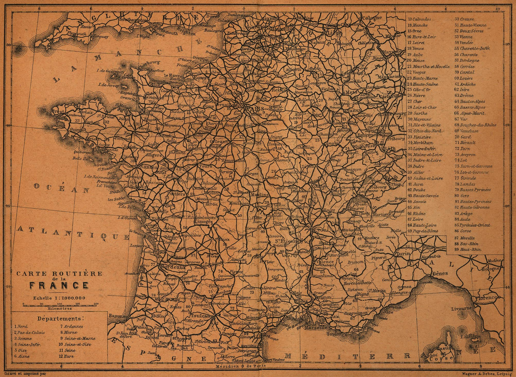 "carte routière" == road map so description is probably wrong